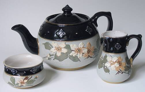 Langley Mill Pottery, UK, Blue Duchess Ware. Teapot, Cream Jug, and Sugarbowl.